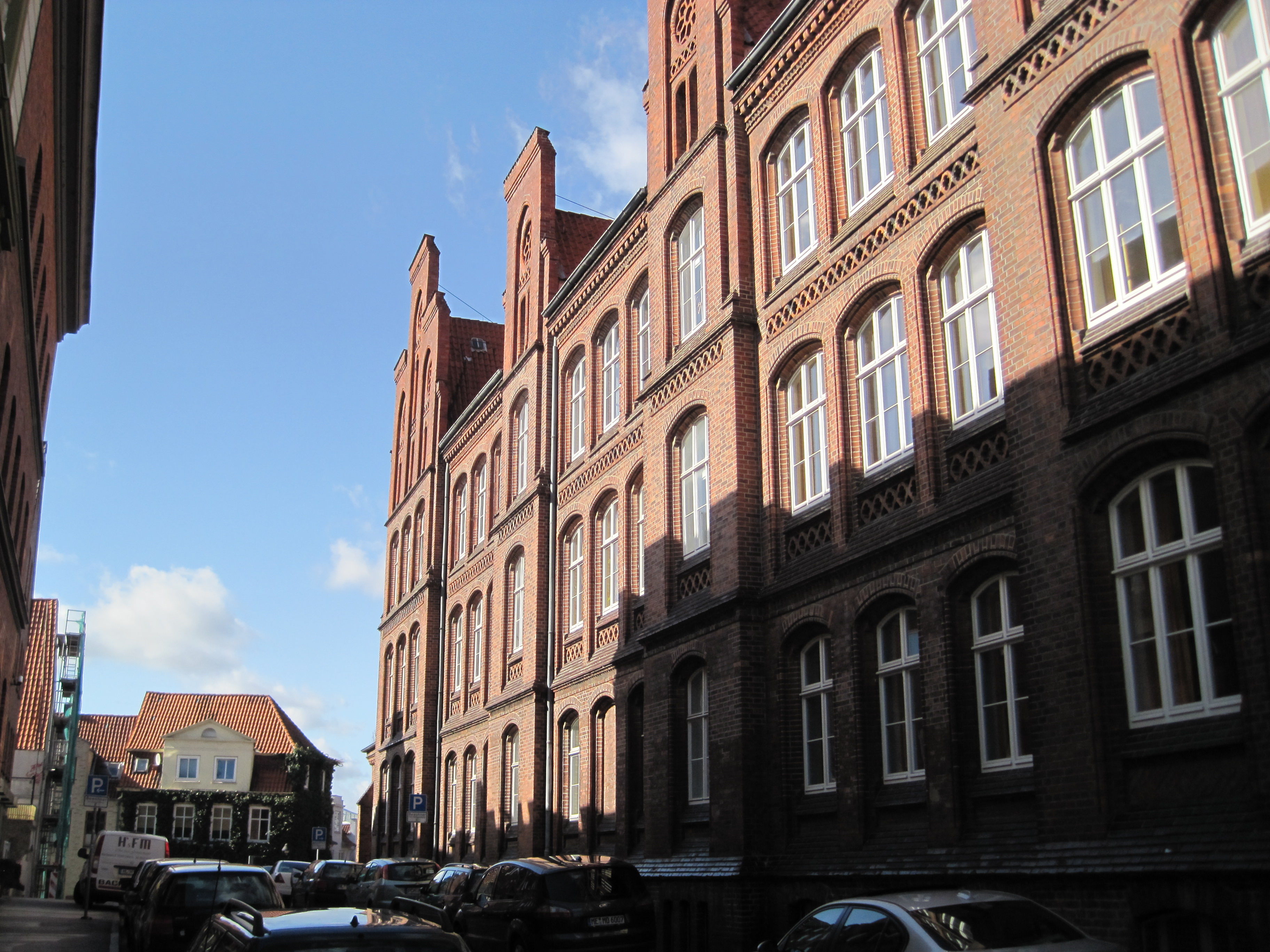 Building of former Burgschule in Lübeck.